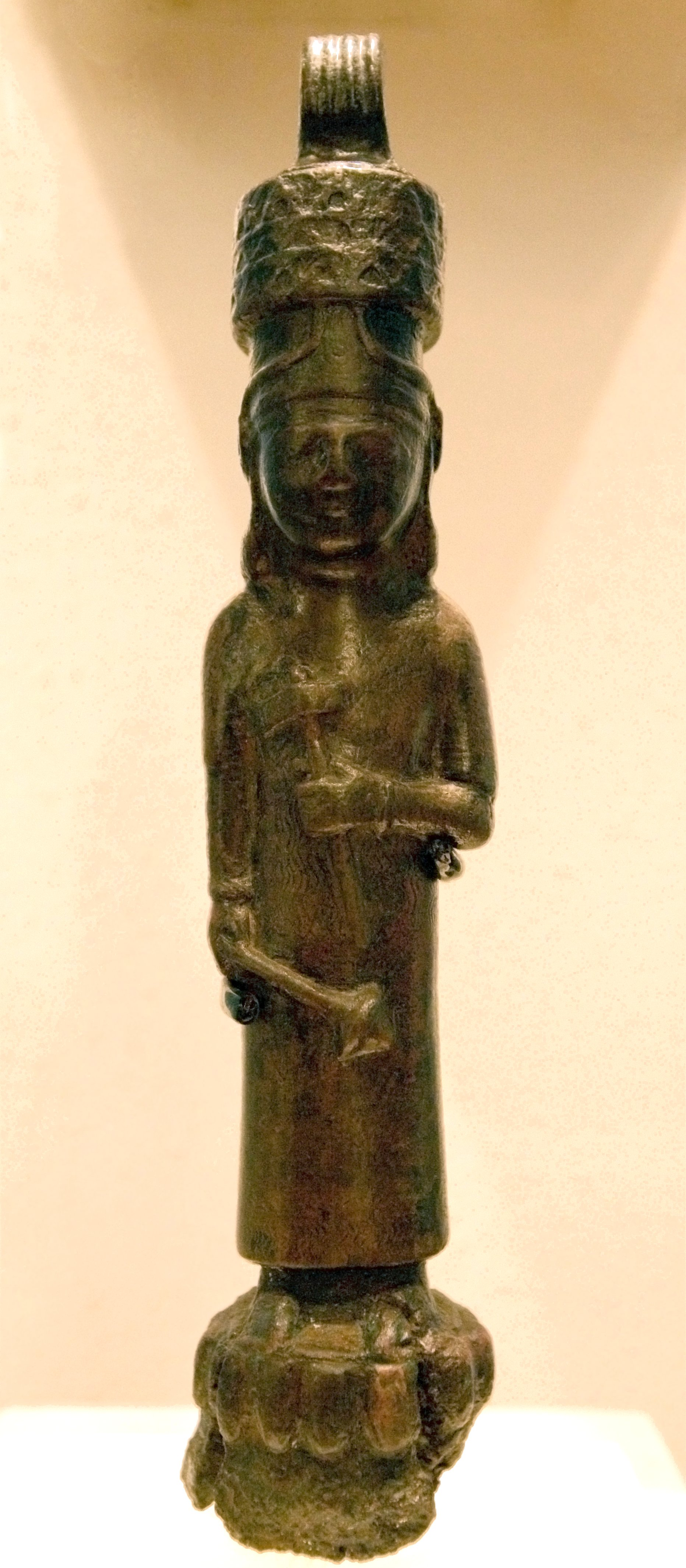 Urartian god Tesheiba